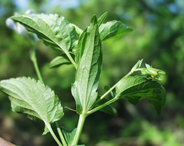 (en) Viola jordanii, a photography originating of the internet site The accord of the autor, H. Brisse, is here. (fr) Viola jordanii, une photographie issue du site internet L'accord de l'auteur, H. Brisse, se situe ici.